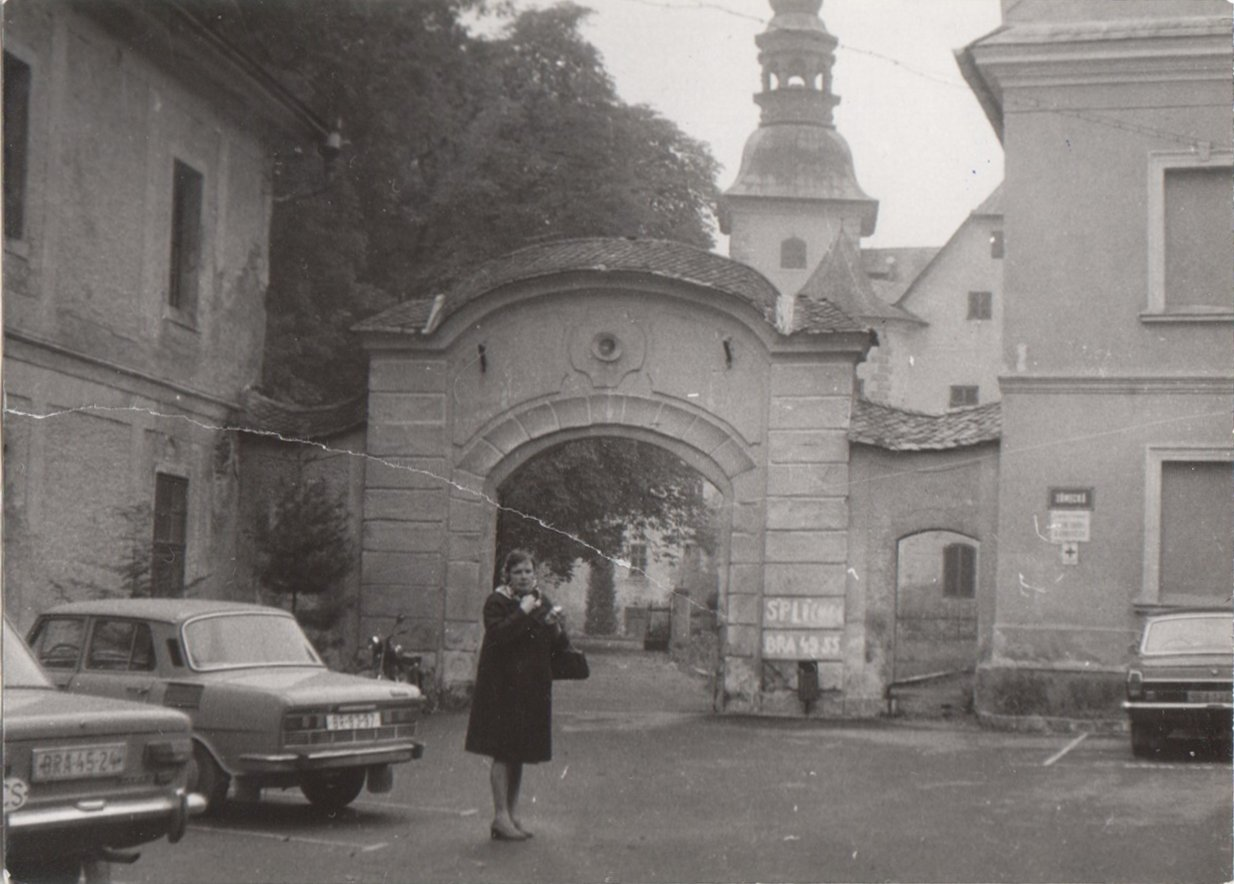 Gate of Janovice palace in Janovice (Rýmařov municipality), Czechoslovakia. Personality rights warning Although this work is freely licensed or in the public domain, the person(s) shown may have rights that legally restrict certain re-uses unless those depicted consent to such uses. In these cases, a model release or other evidence of consent could protect you from infringement claims.